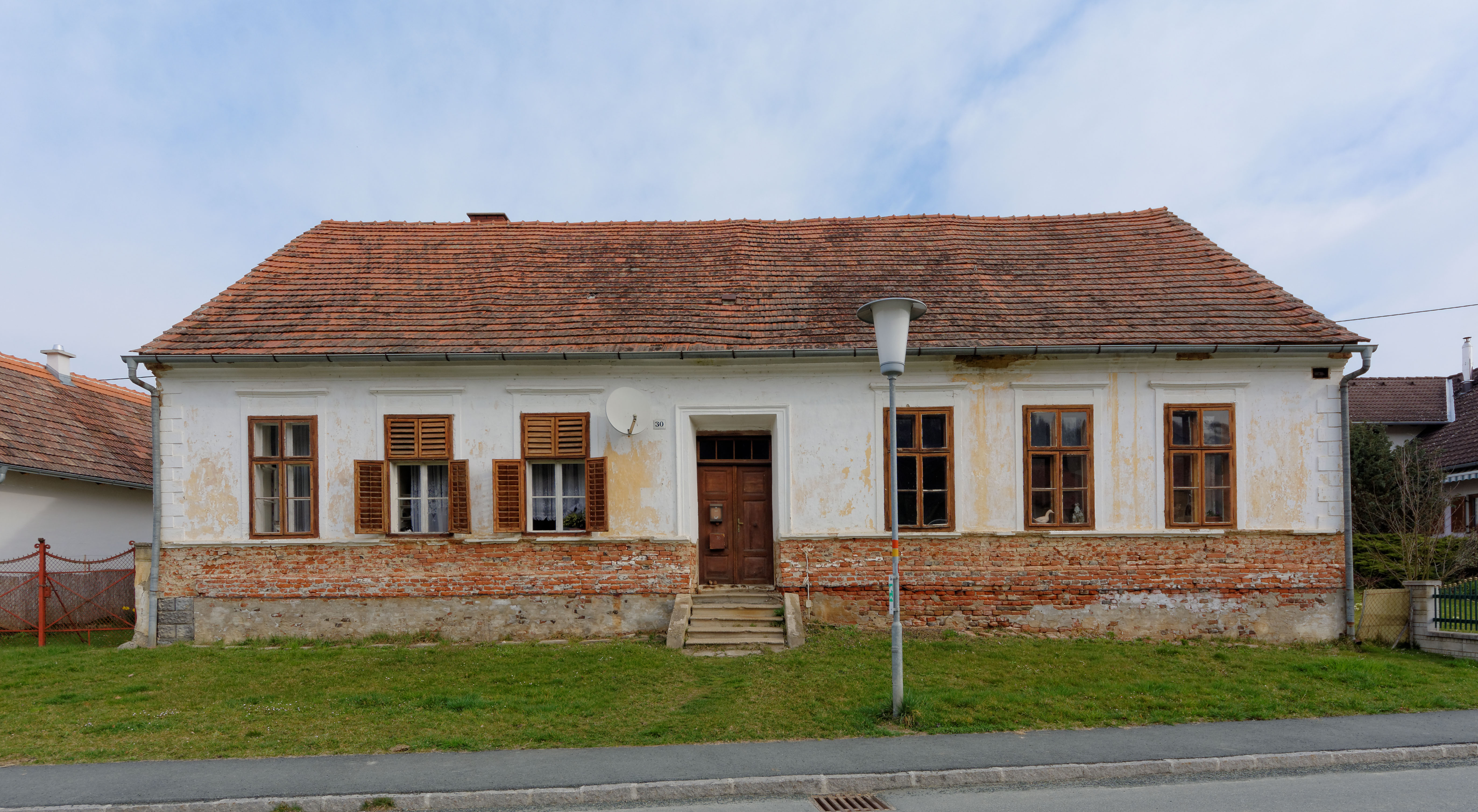 Former school in Neustift bei Güssing, Burgenland, Austria